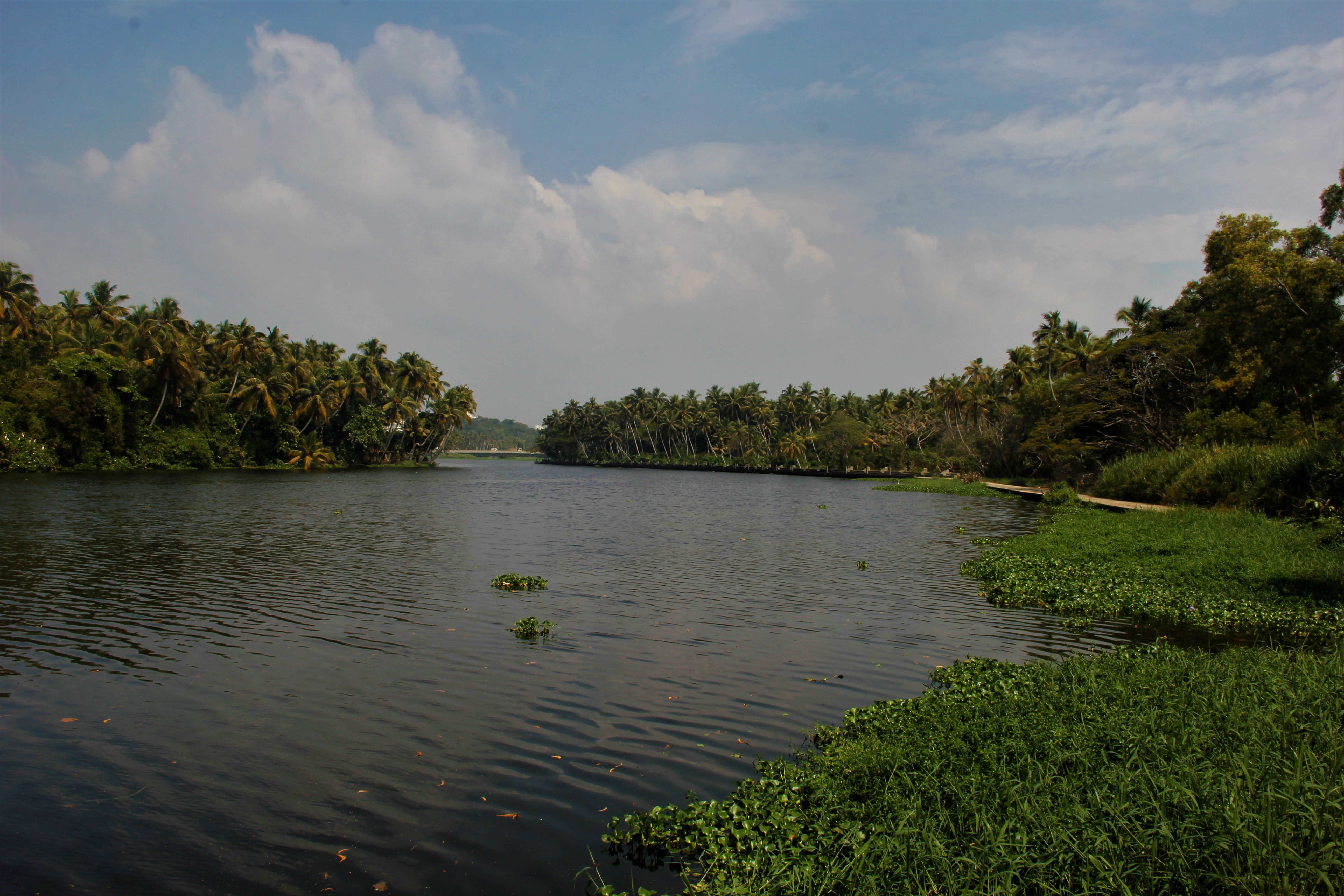 Akkulam Lake, Trivandrum, Kerala, India